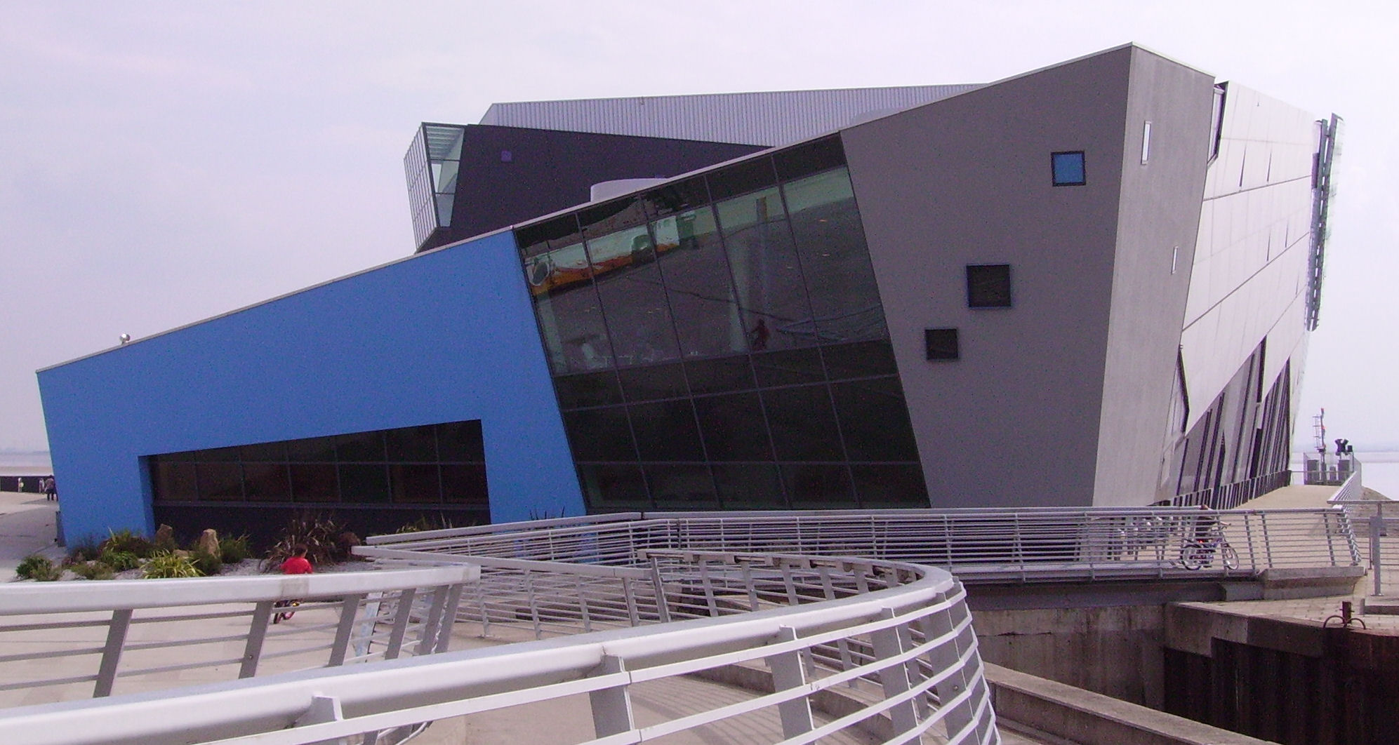 aquarium The Deep in Kingston upon Hull, United Kingdom